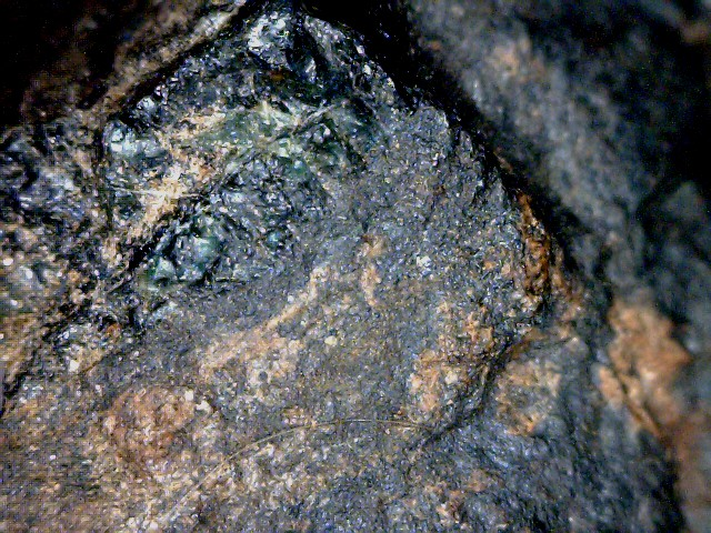 Qingheiite, Beusite Locality: Santa Ana Pegmatite, Totoral pegmatitic field, Coronel Pringles Department, San Luis, Argentina Field of View: 5 mm Description: Dark green Qingheiite and brown Beusite on matrix; Photo and collection Fernando Brederodes